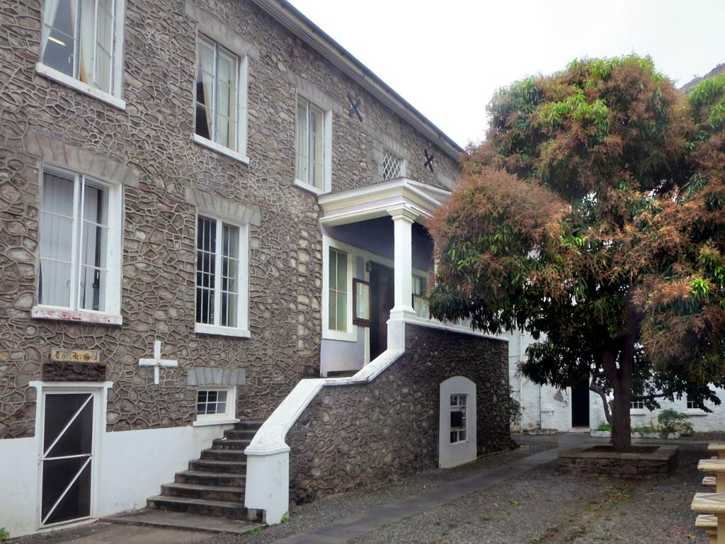 Jamestown Castle was largely rebuilt in the 1860s after the original buildings were destroyed by termites brought to St Helena Island aboard a captured Brazilian slave ship.